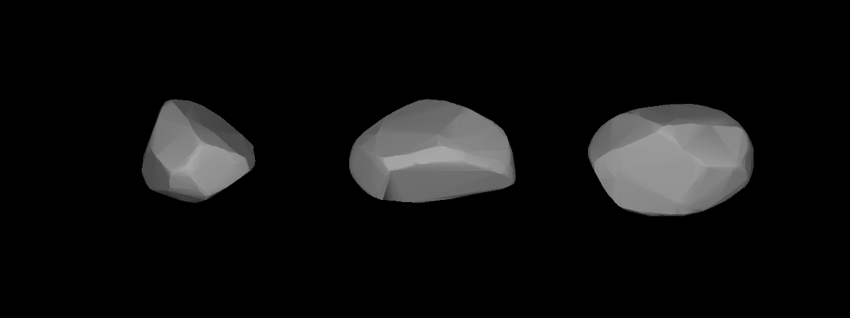 A three-dimensional model of 847 Agnia that was computed using light curve inversion techniques.